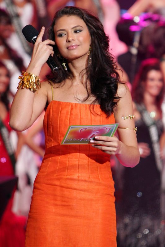 Miss Earth 2004, Priscilla Meirelles of Brazil! as a host during Miss Earth 2007